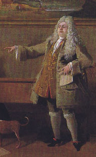 The alto castrato singer Nicolo Grimaldi, known as "Nicolini" detail from Marco Ricci : Prova di un'opera. see commons